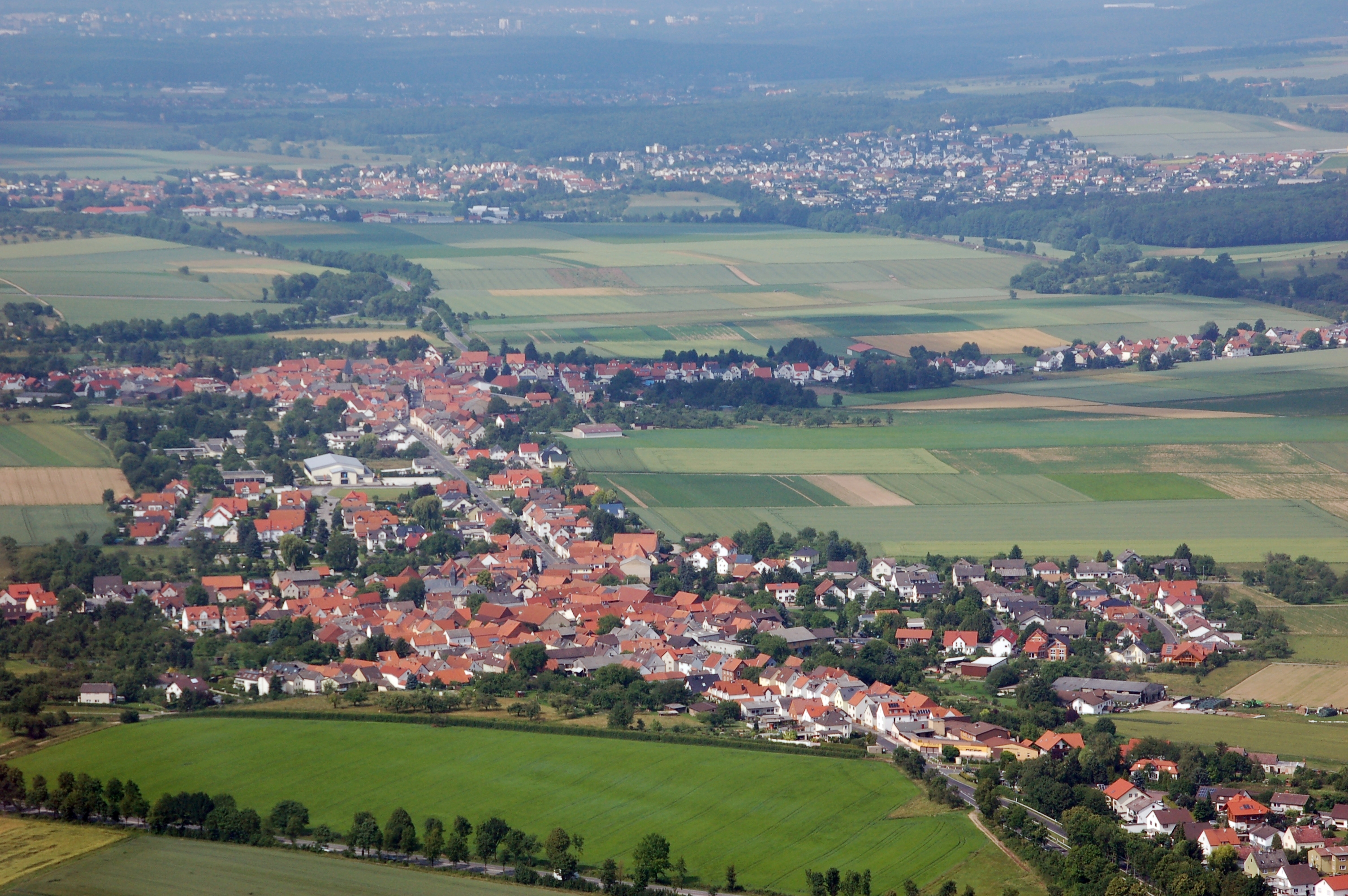 Aerial photograph of Kirch-Göns and Pohl-Göns, Hessen, Germany